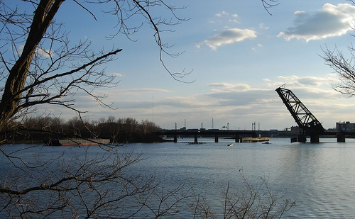 Seekonk River at Providence, Rhode Island